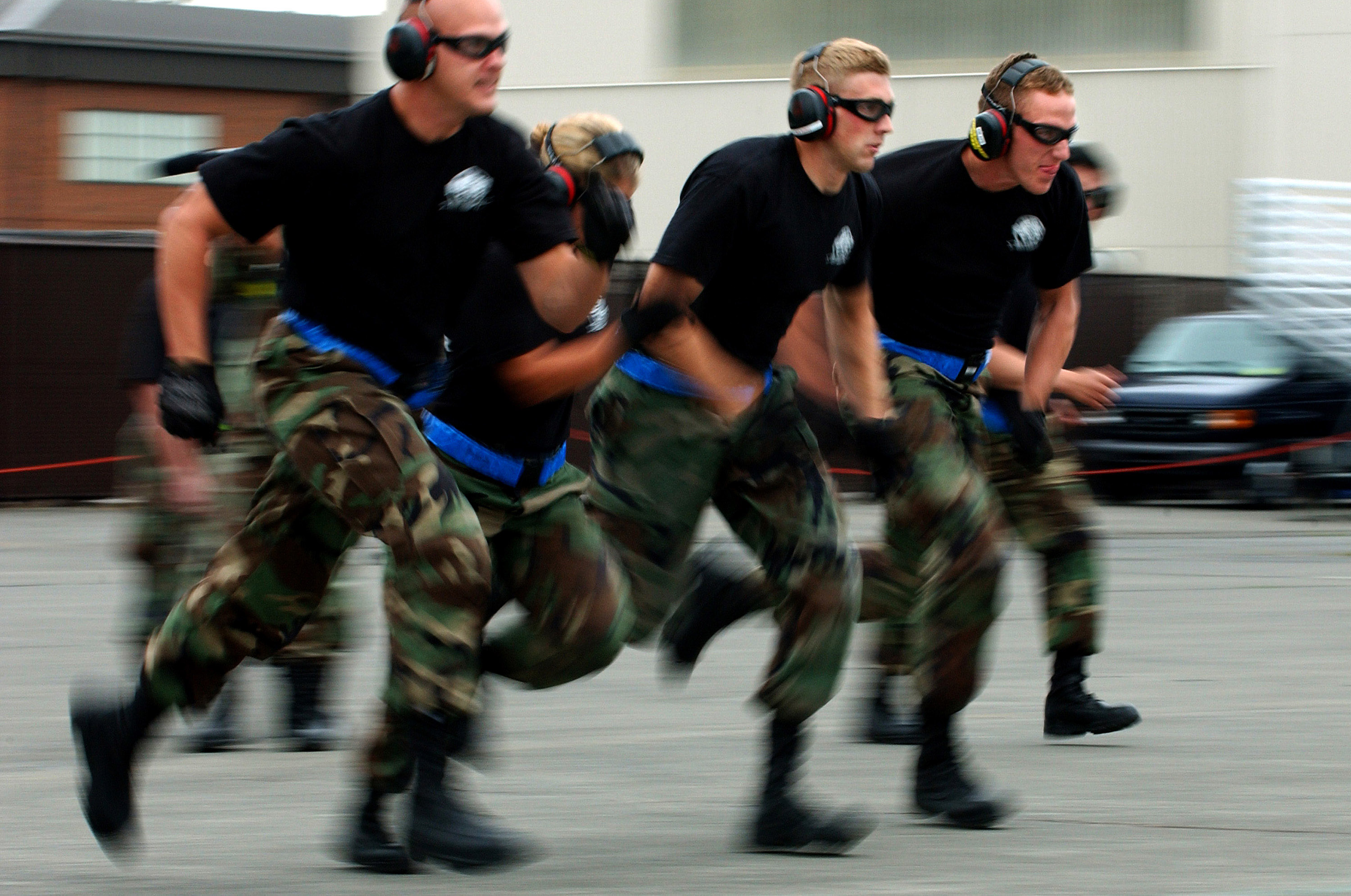 Airmen from the 436th Aerial Port Squadron at Dover Air Force Base, Del., run toward a C-5 Galaxy to unload vehicles for the engine running on- and off-loading competition at McChord Air Force Base, Wash., July 23. The event was part of Air Mobility Command's Rodeo 2007.